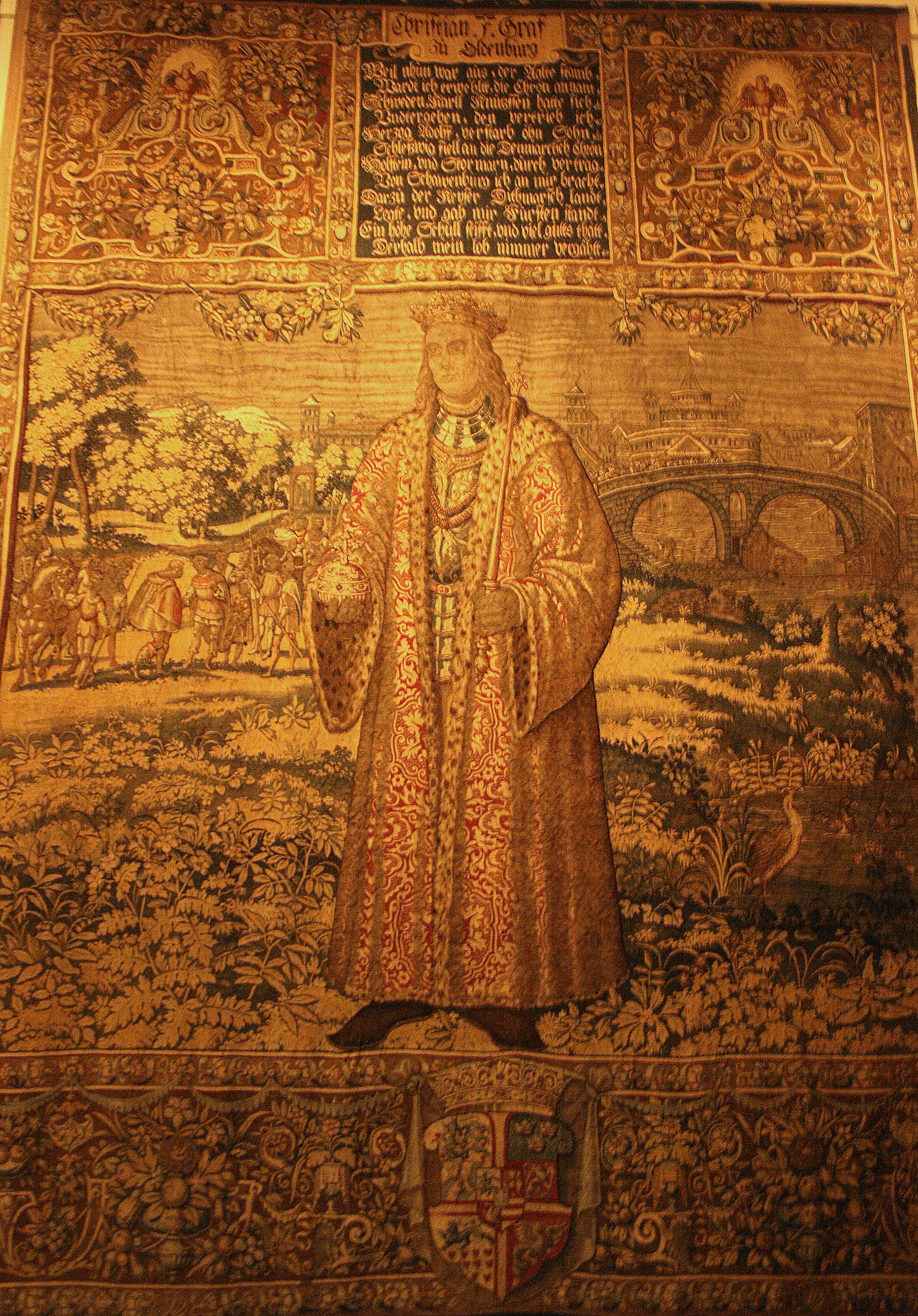 Christian I. Count of Oldenburg (1448-1481), later King of Danmark - Tapestry